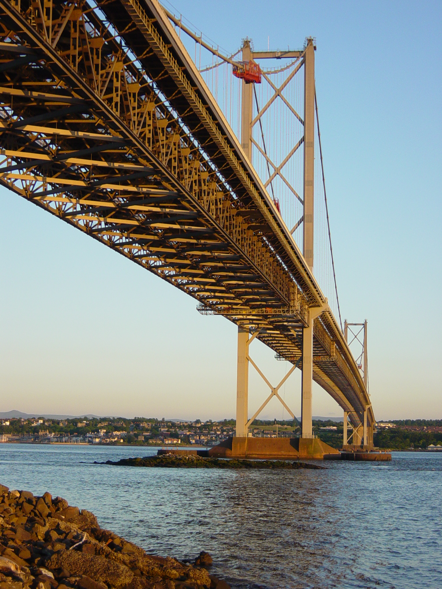 The Forth Road Bridge from the north bank, taken 27th June 2005 at 21:35 by Euchiasmus (me) - late evening sunshine.